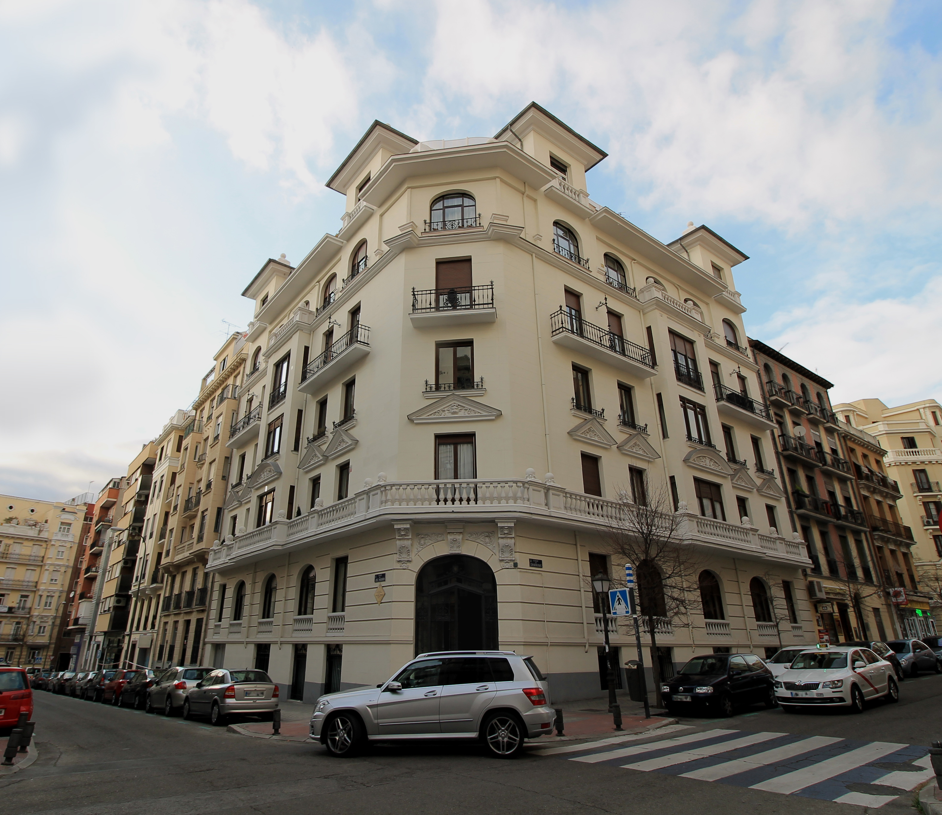 Housing building at 9th Calle de Covarrubias (street) in Madrid (Spain). Writer Gerardo Diego lived in it from 1940 until his death in 1987.